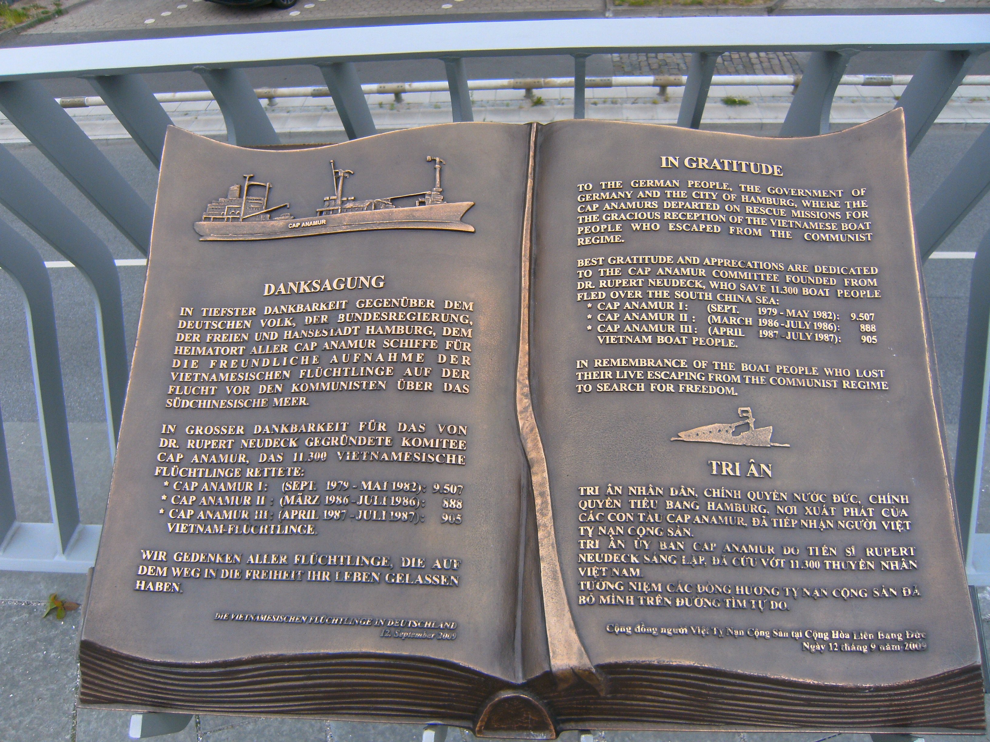 Memorial in Hamburg, Germany, by vietnam boat people to thank for help by ship Cap Anamur and to remember those who lost their lives on flight. After augmentation of flood shelter building Elbpromenade in 2020.